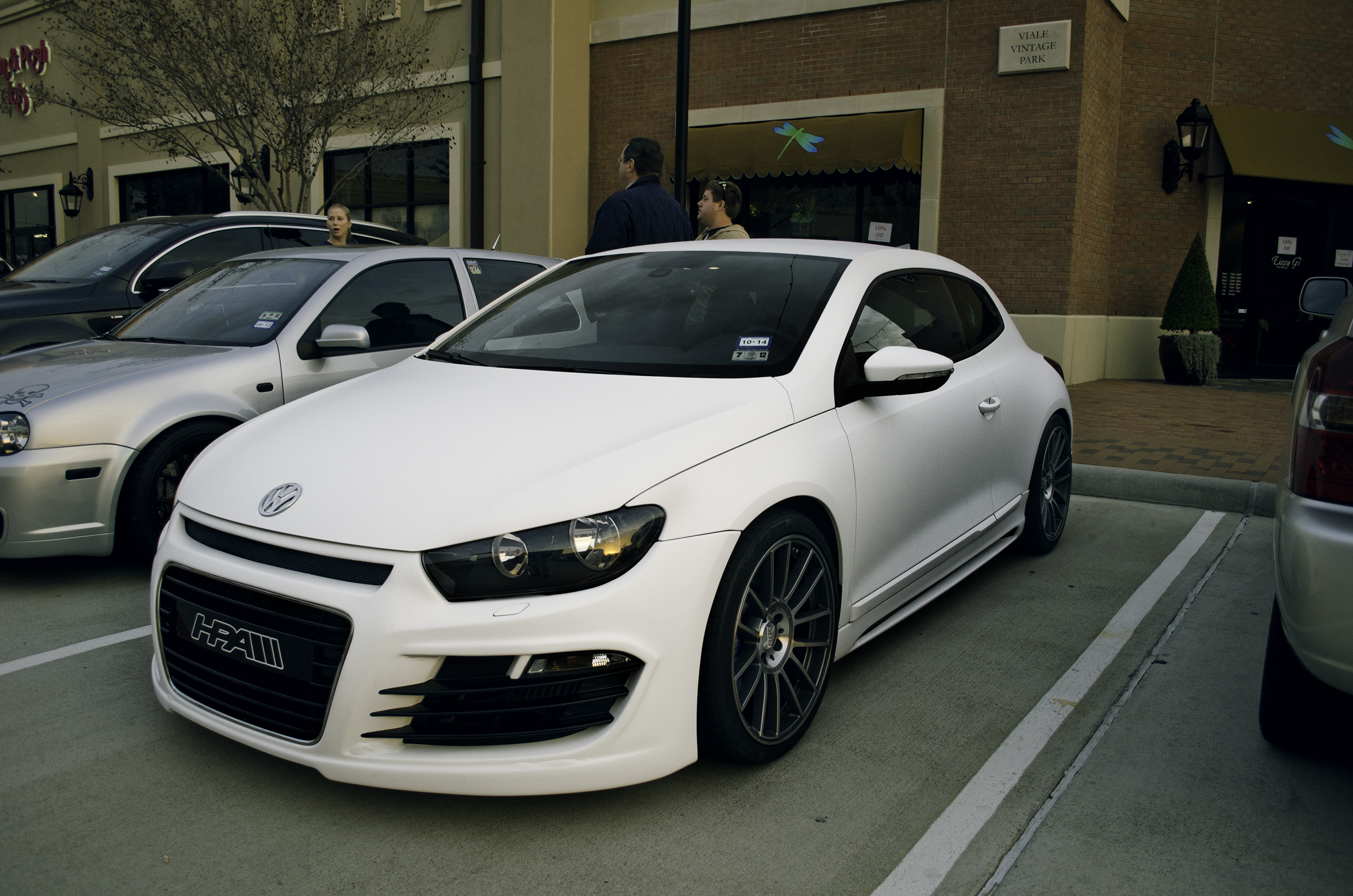 Houston Coffee and Cars December 2011